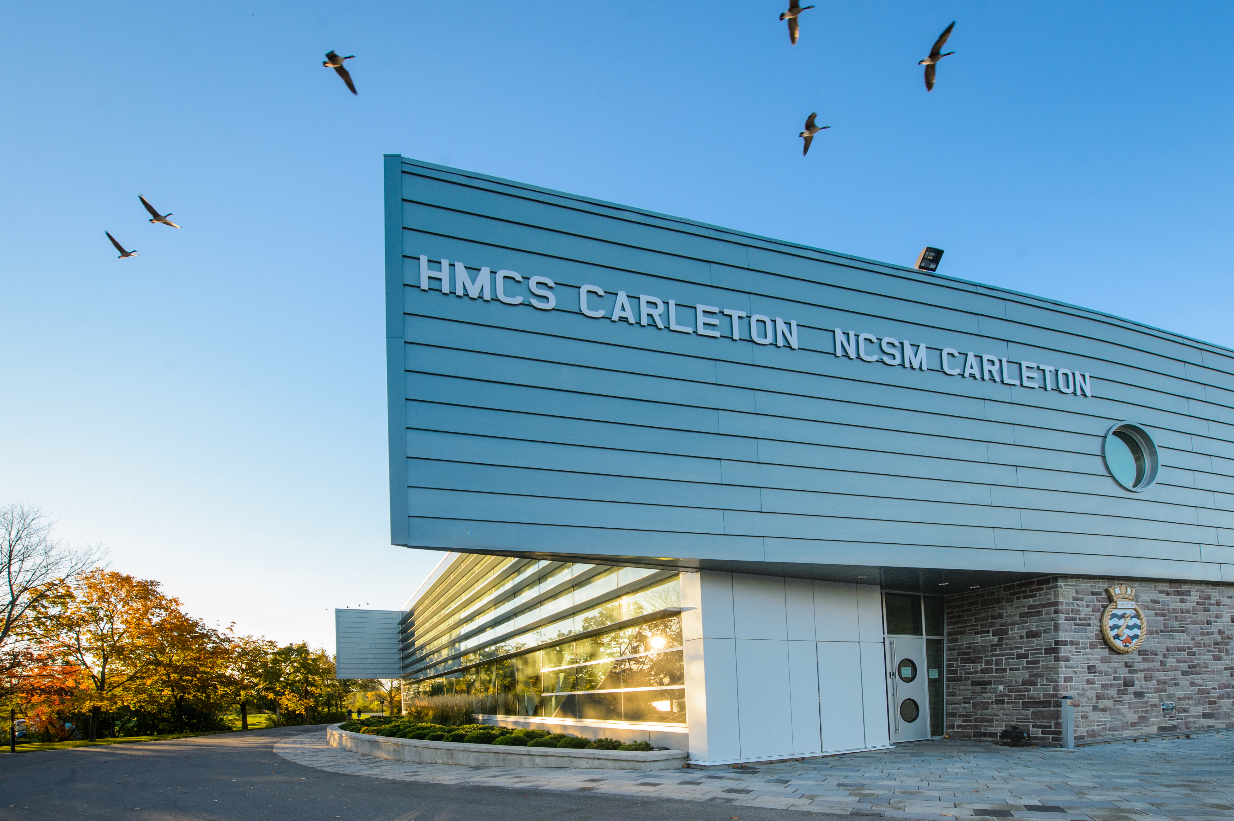 2016 photo of the exterior of HMCS Carleton's new building, built in 2015.